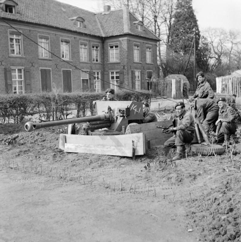 British airborne troops with a 6-pdr anti-tank gun in Hamminkeln, Germany, 25 March 1945. Airborne troops with a 6-pdr anti-tank gun in Hamminkeln, 25 March 1945.